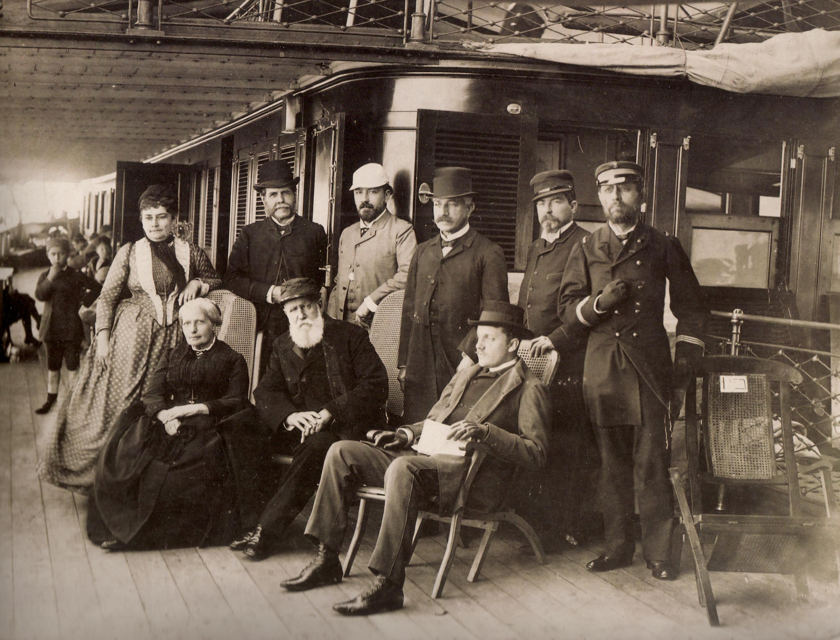 The Emperor Pedro II of Brazil departing on vacation to Europe in 1887.